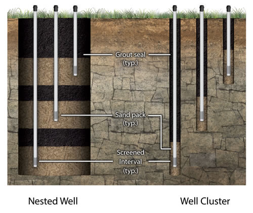 Nested well and well cluster (adapted from Johnson [1983]. With permission)